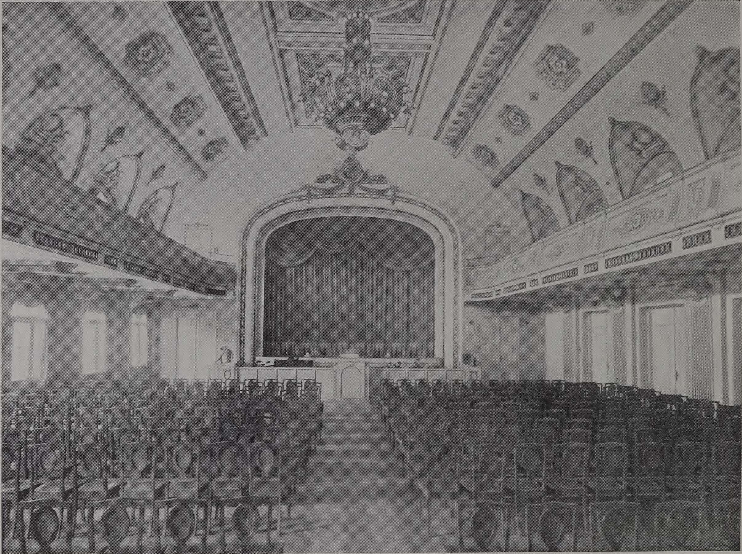 The Great Hall of the Jewish Club (Skolas str. 6) in Riga, 1926. From the Jahrbuch fuer Bildende Kunst in der Ostseeprovinzen, 8.Jg.